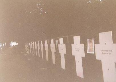 Near the place of the former Berlin wall there are crosses representing the people who were killed while trying to escape over the wall. Picture taken by me in summer 2001. Use freely.